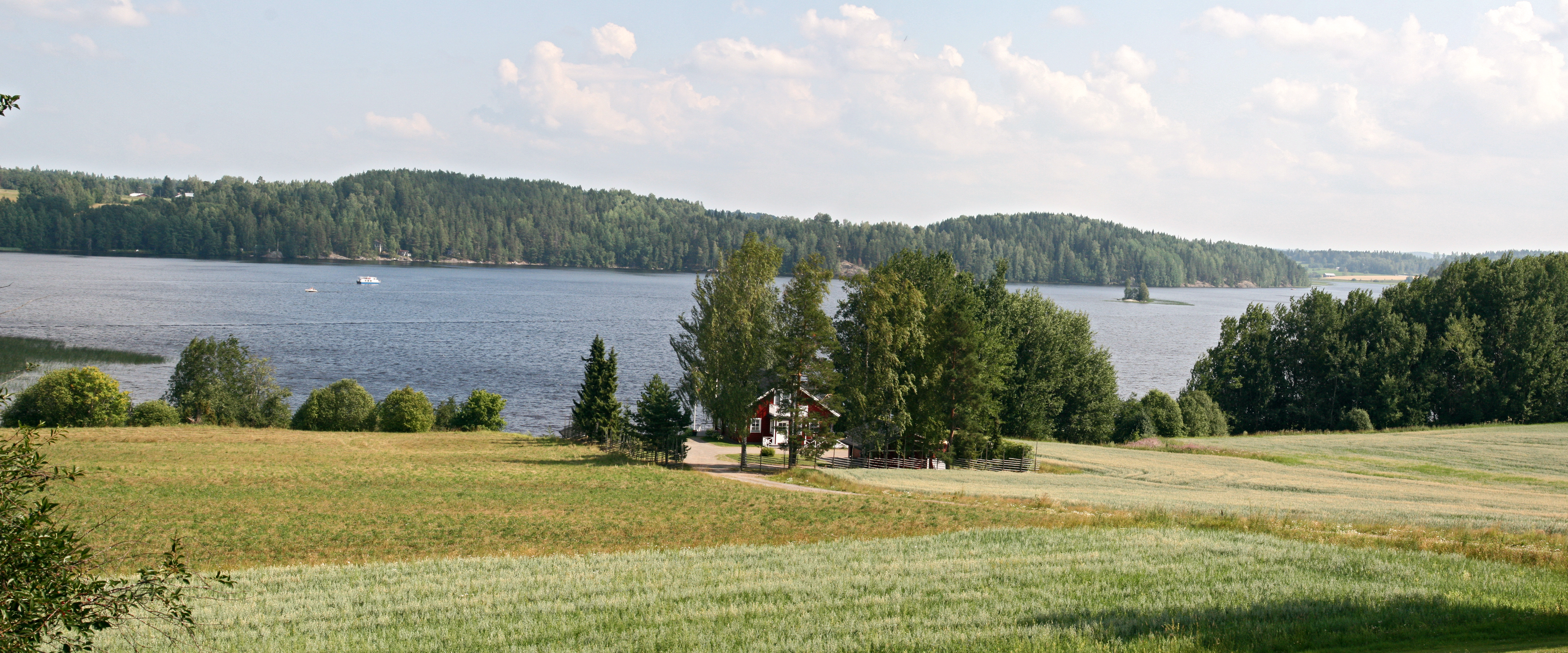 Hämeenkyrö, Finland. View over Lake Kallioistenselkä